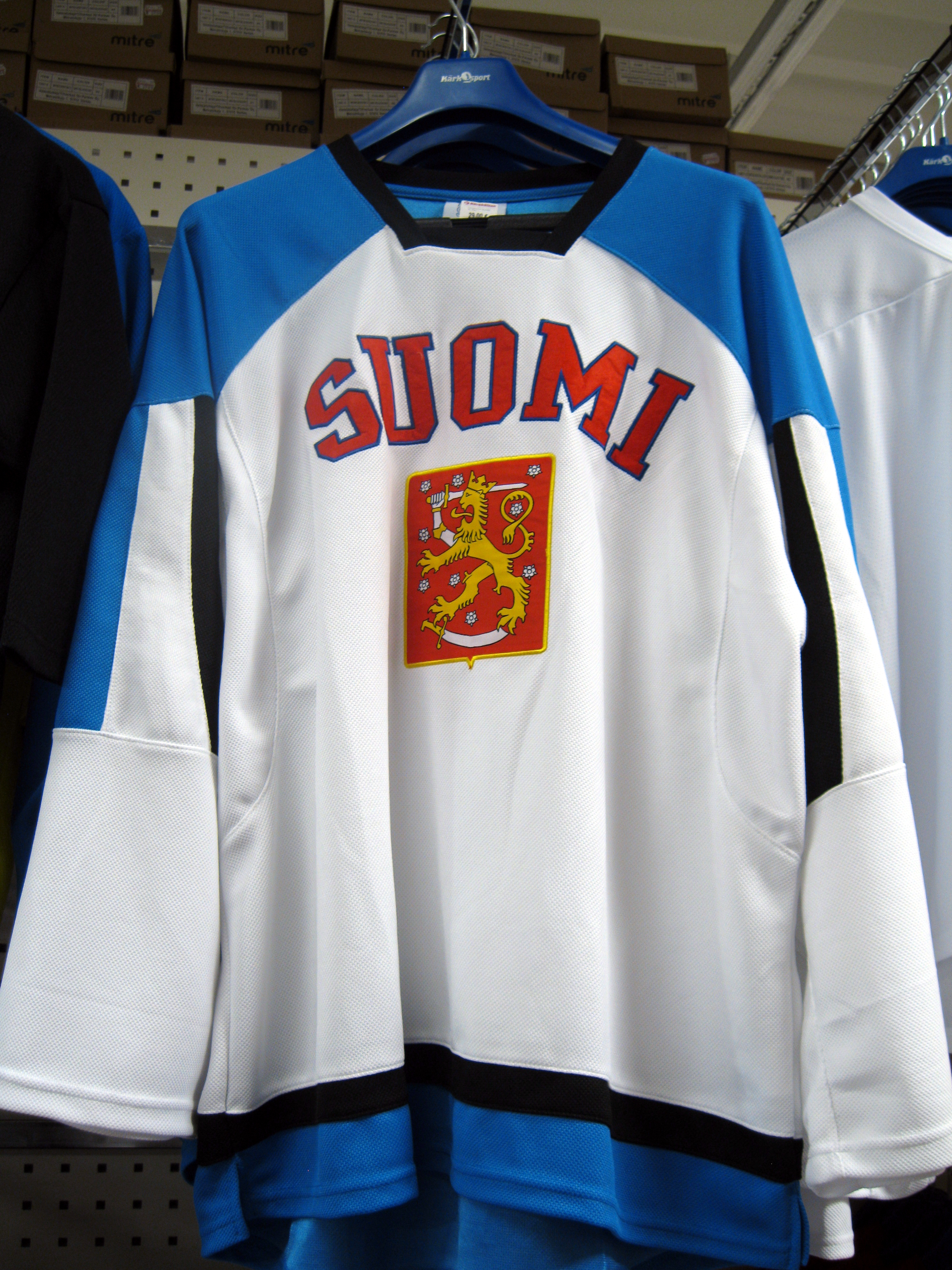 Finland national ice hockey team fan jersey.